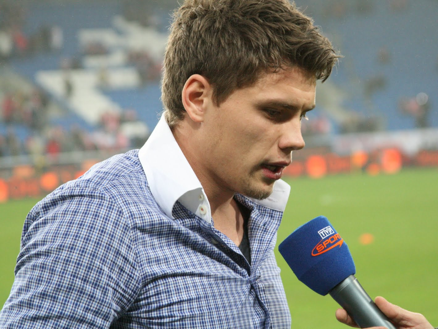 Polish football player Sebastian Boenisch